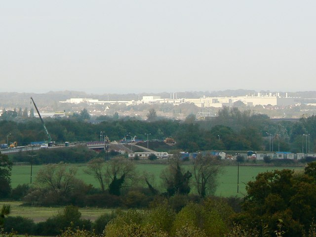 Honda of the UK Manufacturing plant, South Marston, Swindon Honda's presence here started in the mid 1980s. Car manufacture proper started in about 1992 or 1993. There are now two assembly plants and an engine manufacturing facility. The plant is now so large one has to be some way off to get it all in one frame.